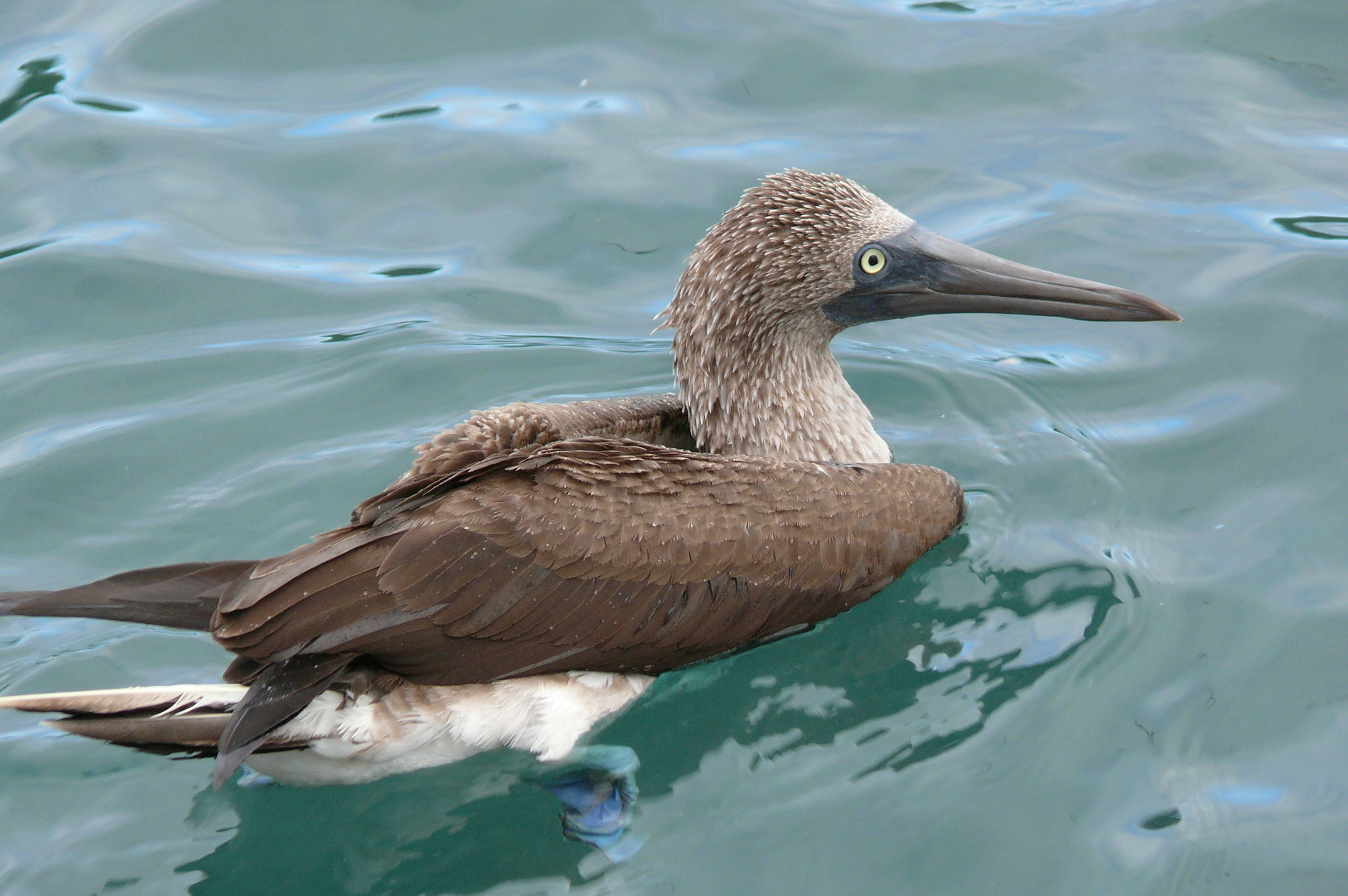 Blue-footed Booby (Sula nebouxii), Seymour Norte